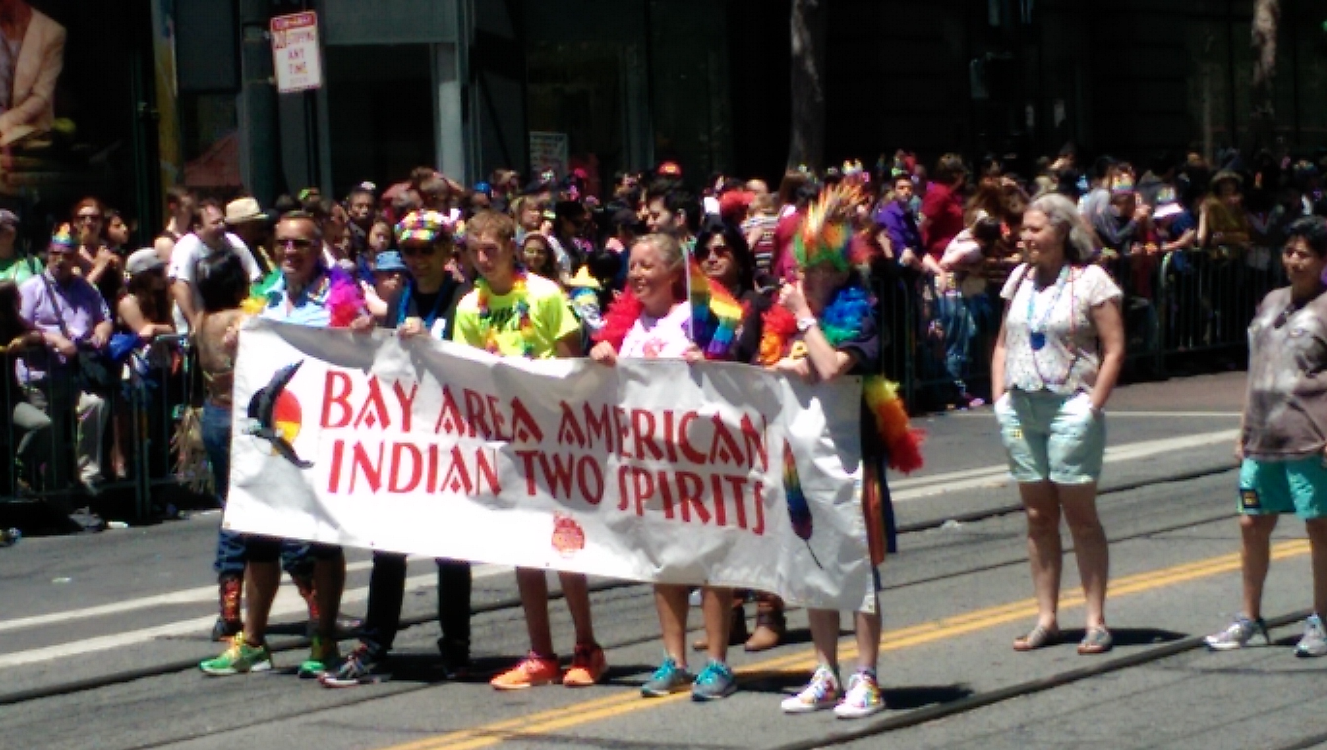 Two-spirited pride marchers at San Francisco Pride 2014